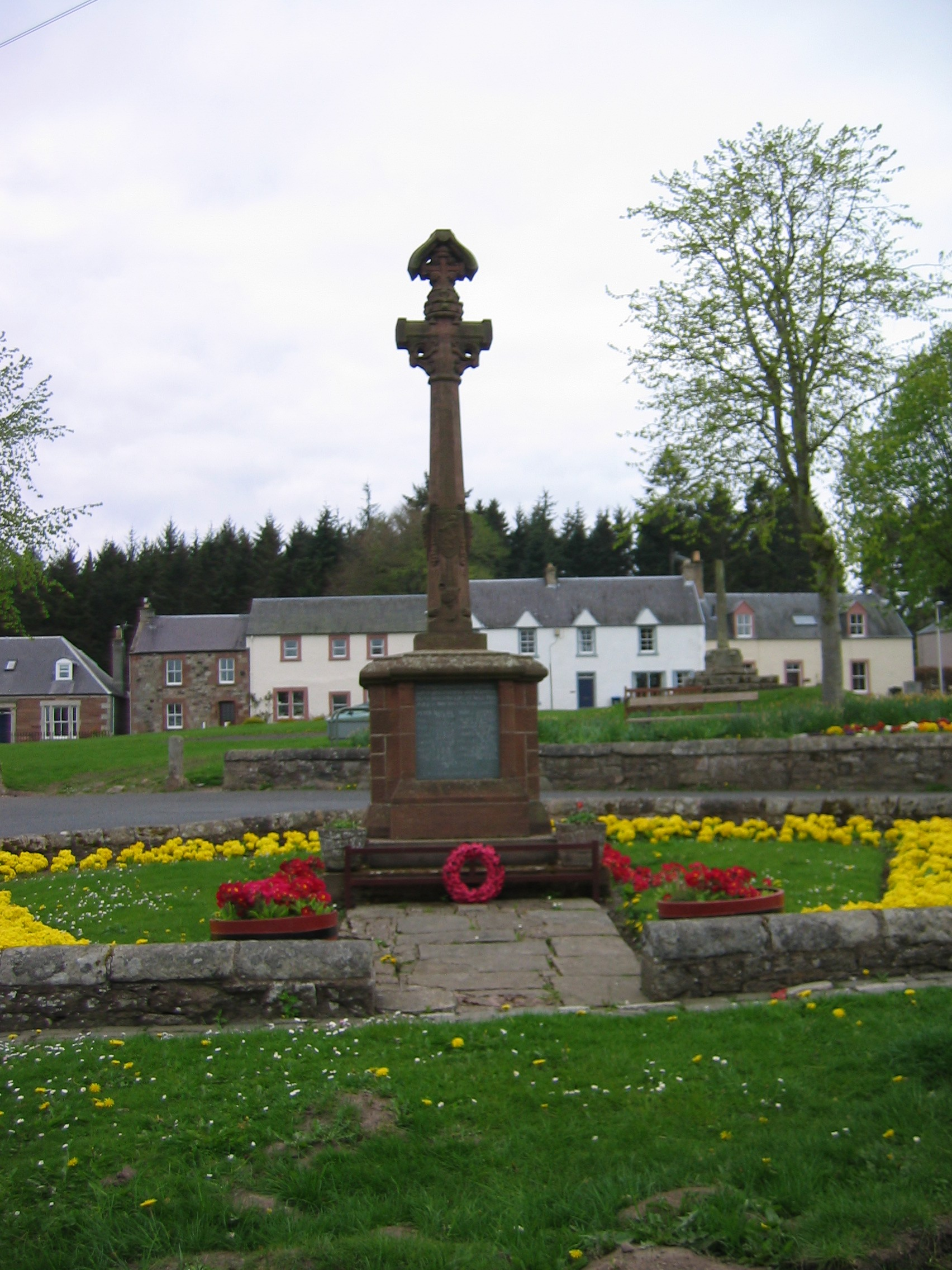 War Memorial, Ancrum, Scottish Borders